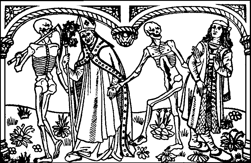 Dance of Death, by Guyot Marchant, 1486